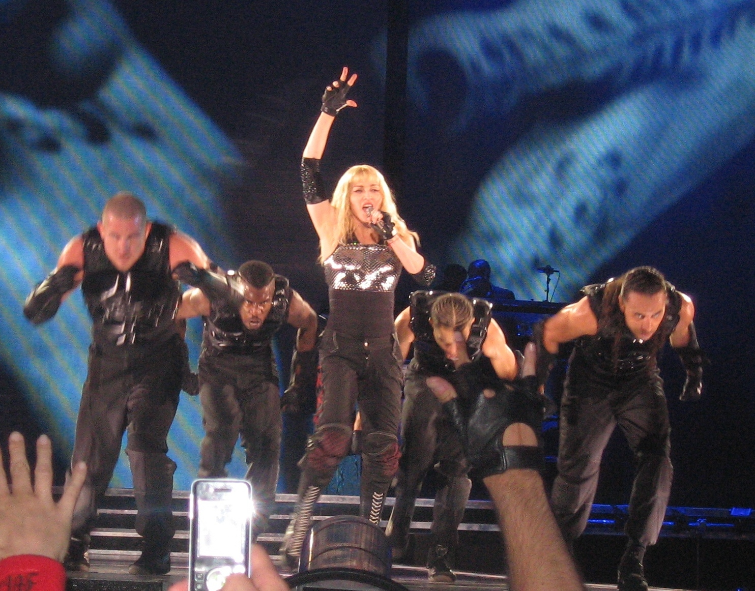 Picture taken at the concert